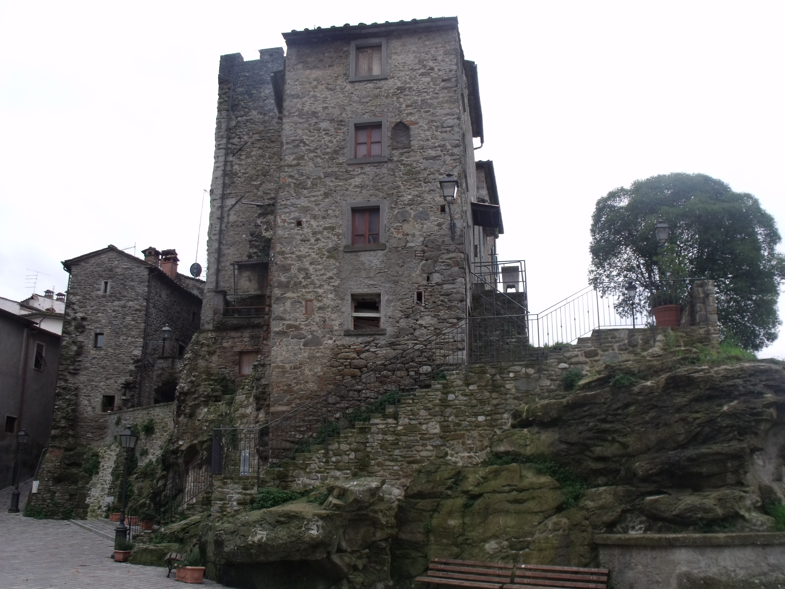 Castello - Castel in Subbiano, Province of Arezzo, Tuscany, Italy